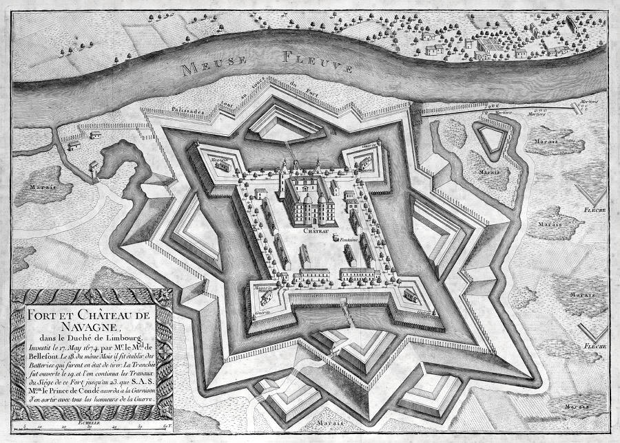 Map of the Fortress Navagne along the river Meuse near Moelingen, Belgium. The fortress was built by the Spanish in 1634-35 around the existing Castle of Navagne. The fortress was destroyed in 1674 by the French, rebuilt, and destroyed once more in 1702. Attributed to French cartographer Chevalier de Beaurain. Situation depicted as of 1674.